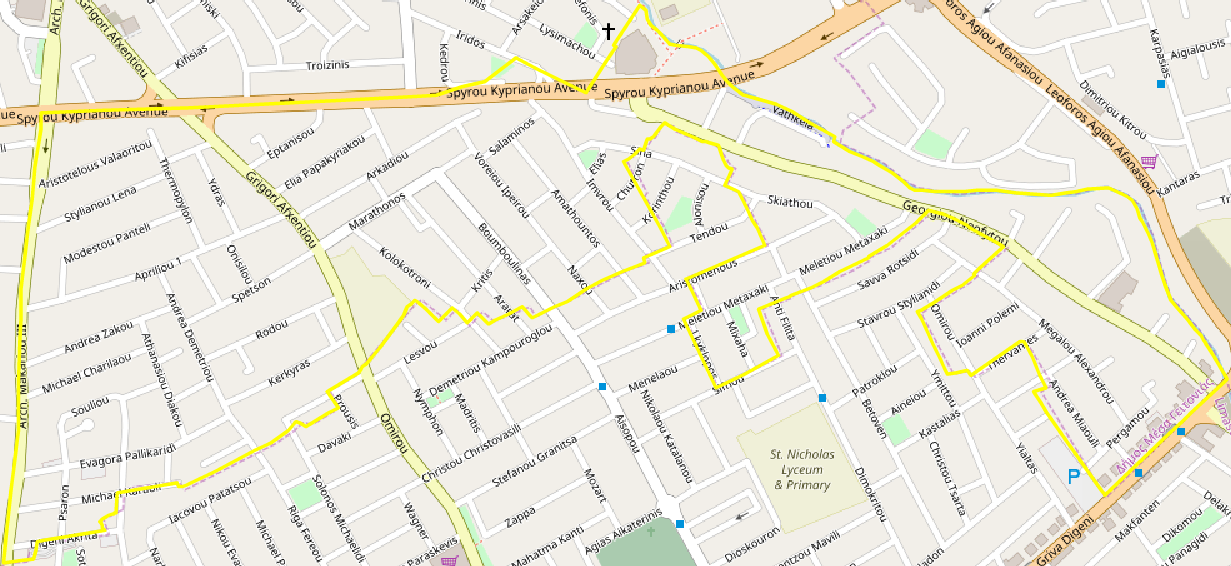 Map of Chalkoutsa (Mesa Geitonia).